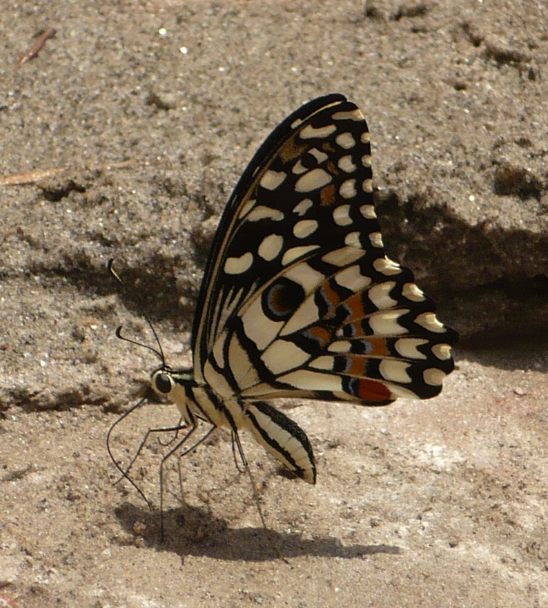 Common Lime Butterfly